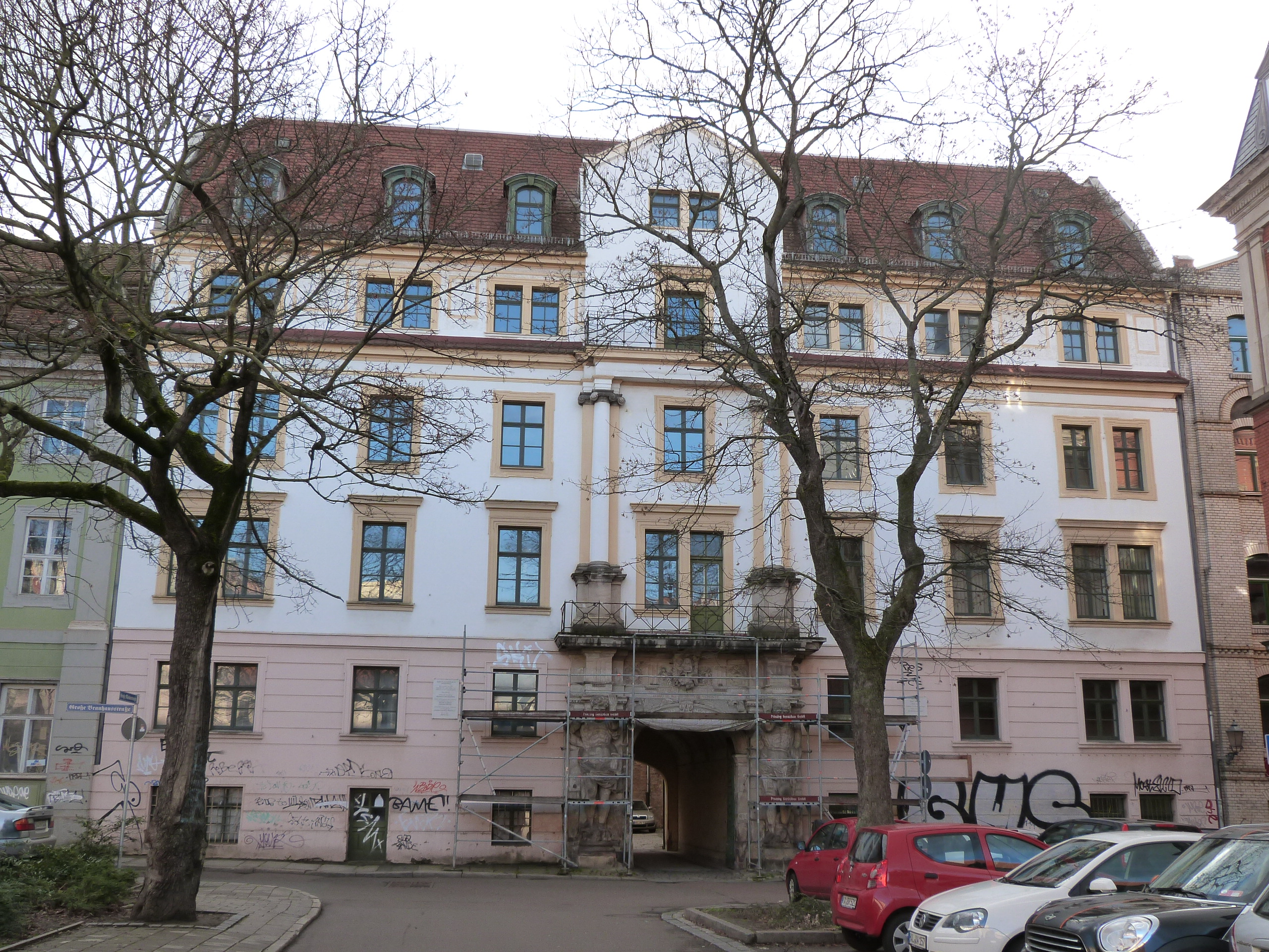 Große Brauhausstraße No. 16 (Giant's House), Halle (Saale)